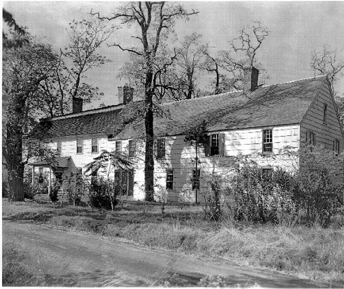 Nathaniel Woodhull's House in Mastic Long Island, now demolished